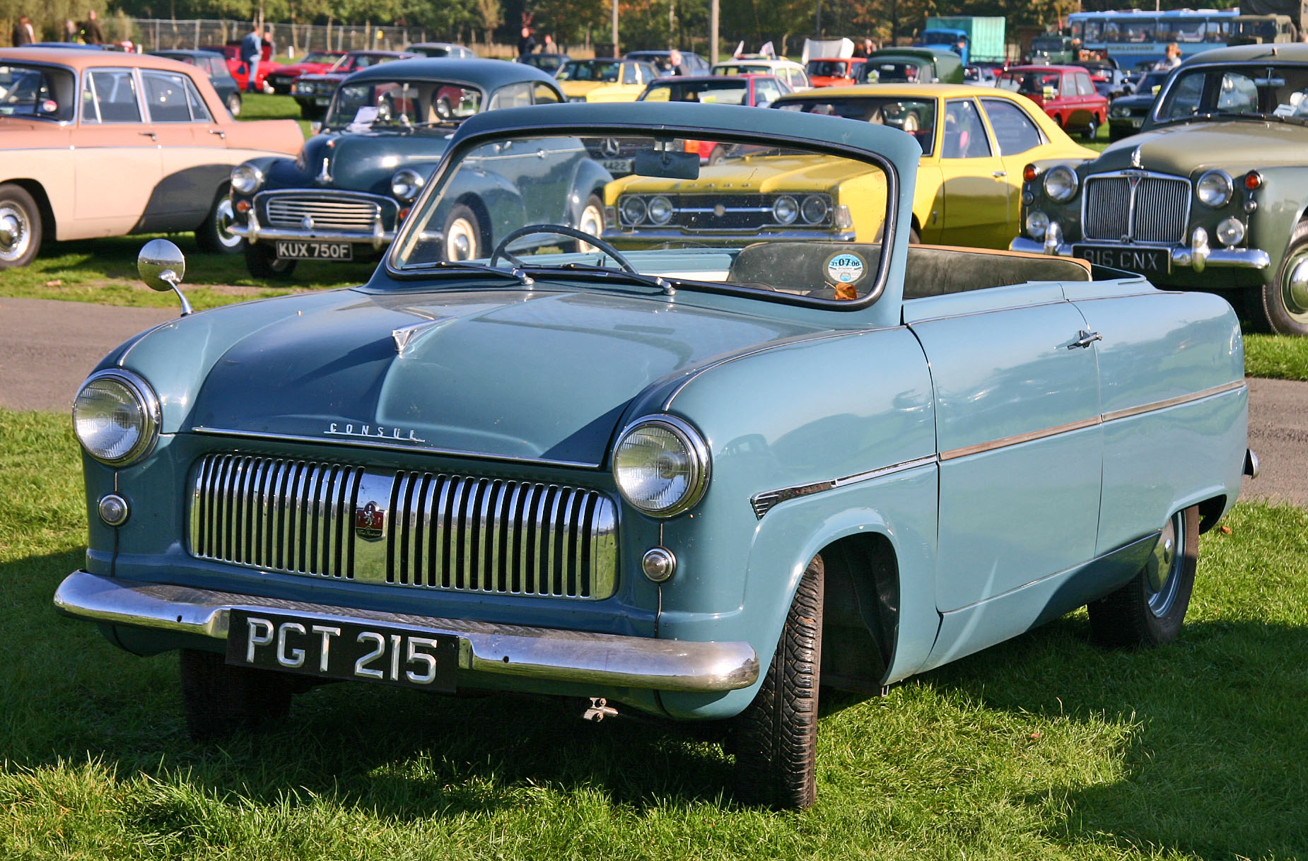 Ford Consul MkI (EOTA). Carbodies of Coventry converted Ford Consul and Zephyr bodies. The monocoque body needed strengthening to put back rigidity lost by removing the roof.